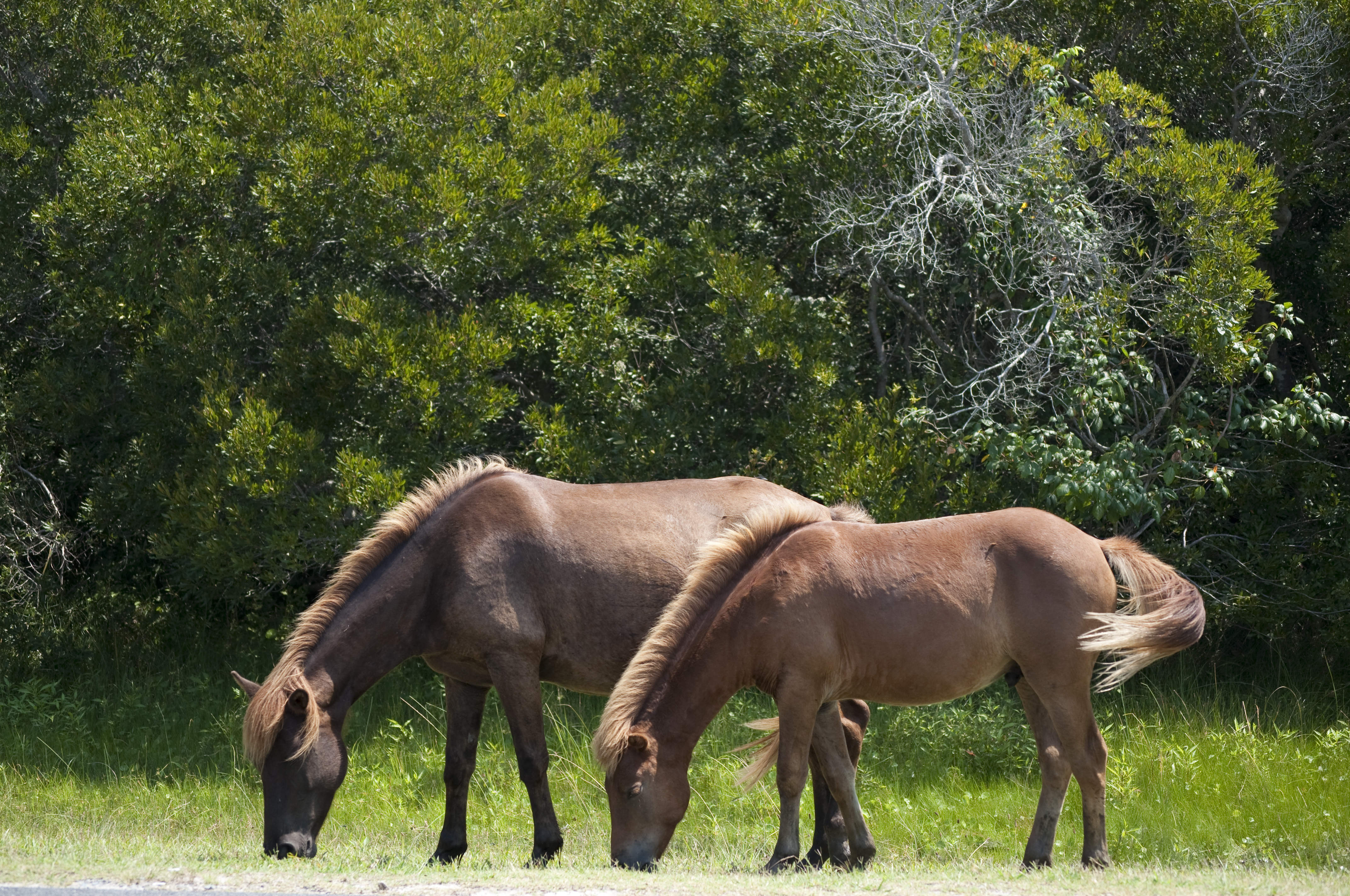 Two of the wild (feral) horses (Equus caballus) of Assateague Island, Maryland, USA, in their native setting